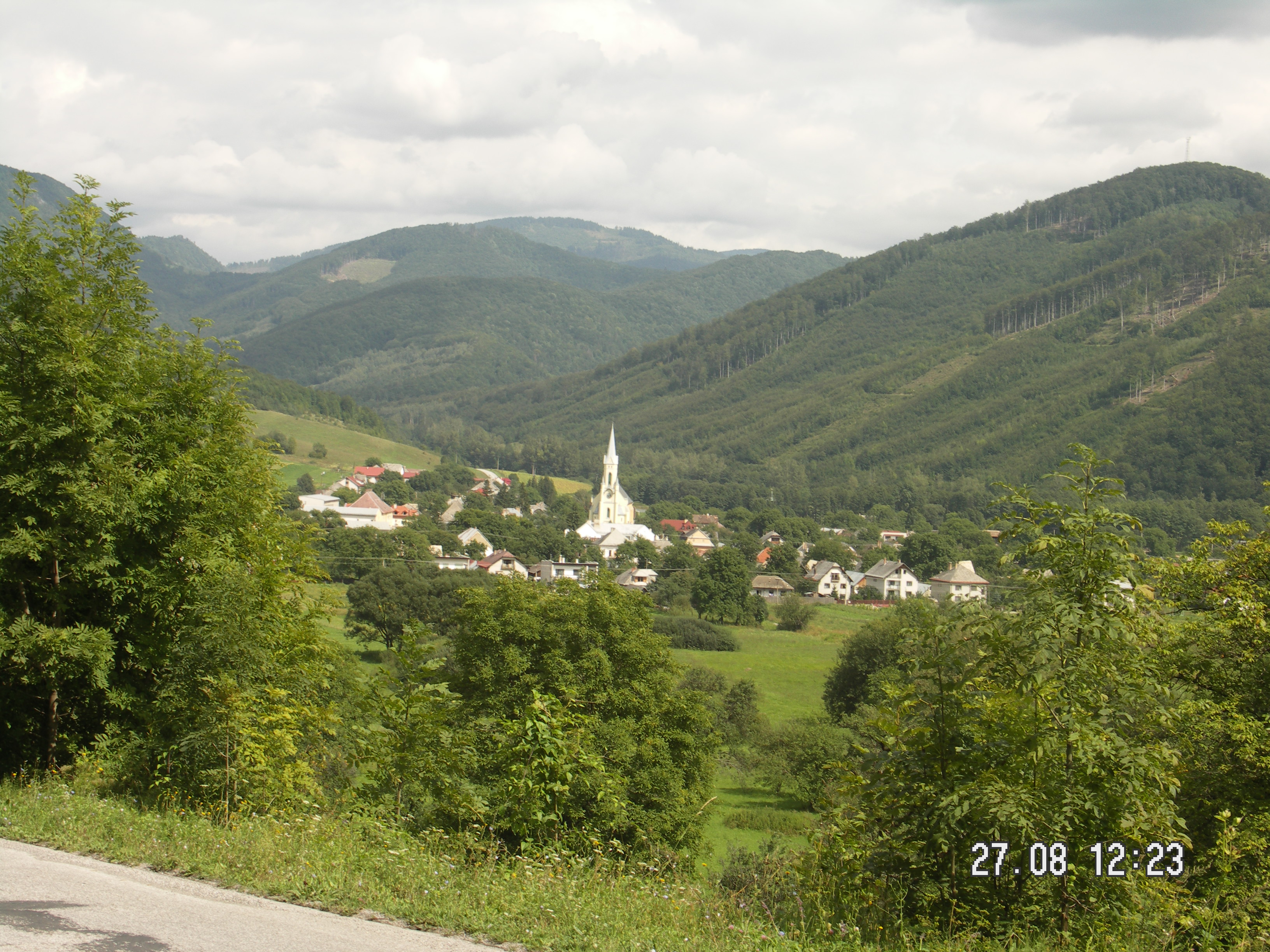 village called Muran, lies in central Slovakia, near the city Revuca